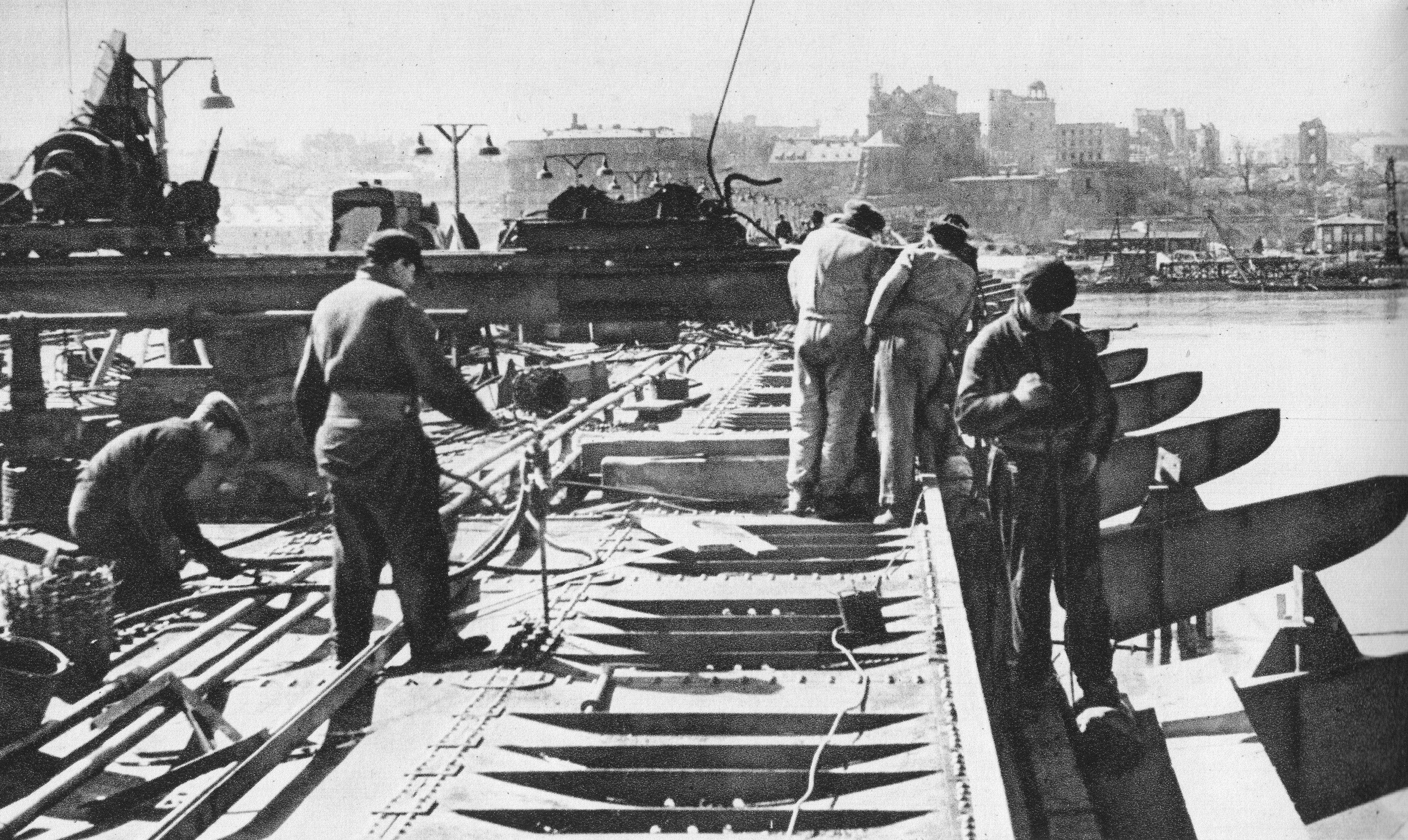 Construction of Śląsko-Dąbrowski Bridge in Warsaw